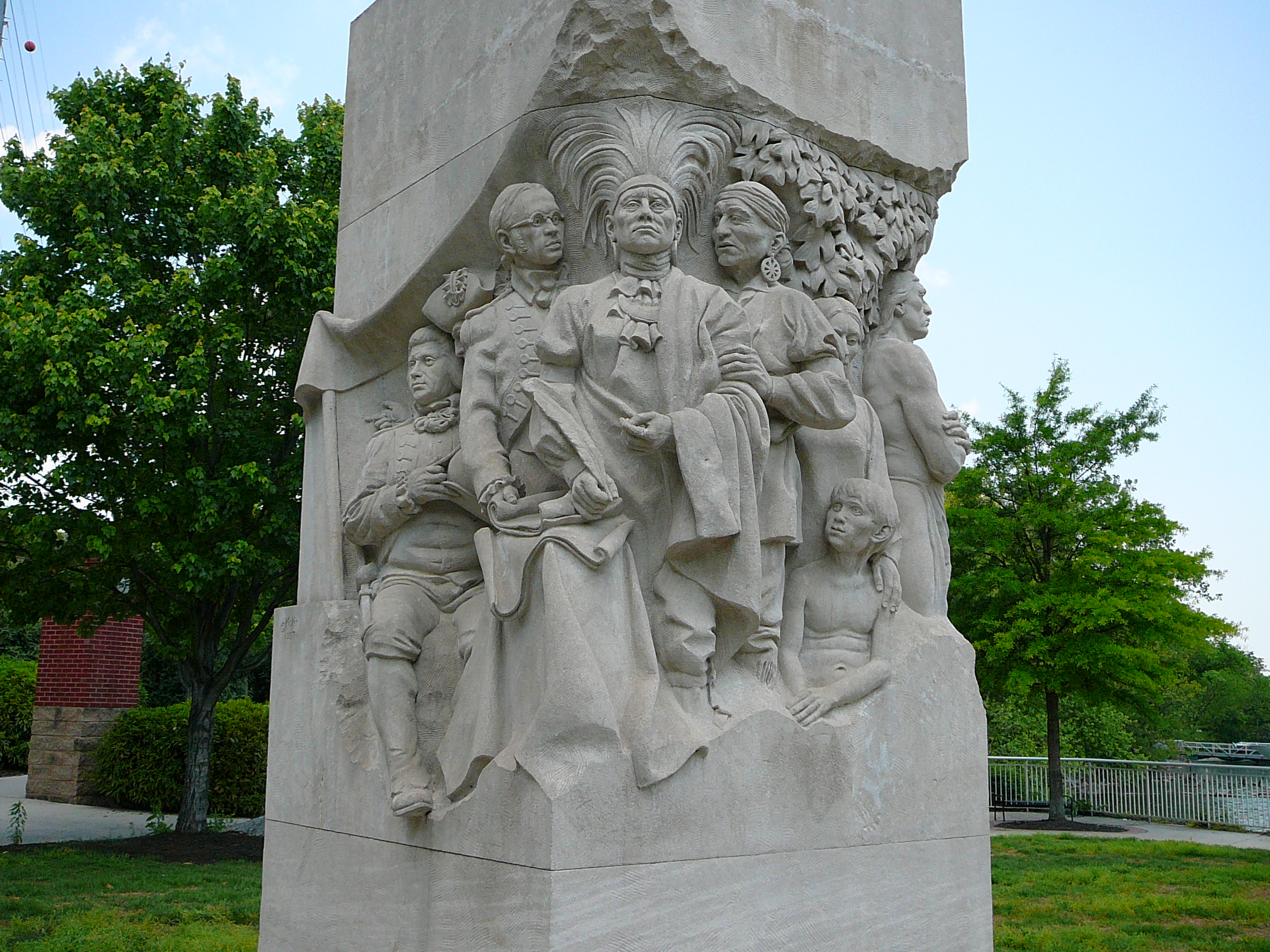 "The Signing of the Treaty of the Holston" sculpture on the Knoxville, Tennessee waterfront.